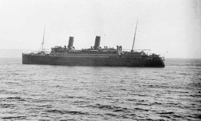 British armed merchant cruiser HMS CALGARIAN was sunk by German submarine U-19 on 1 March 1918.